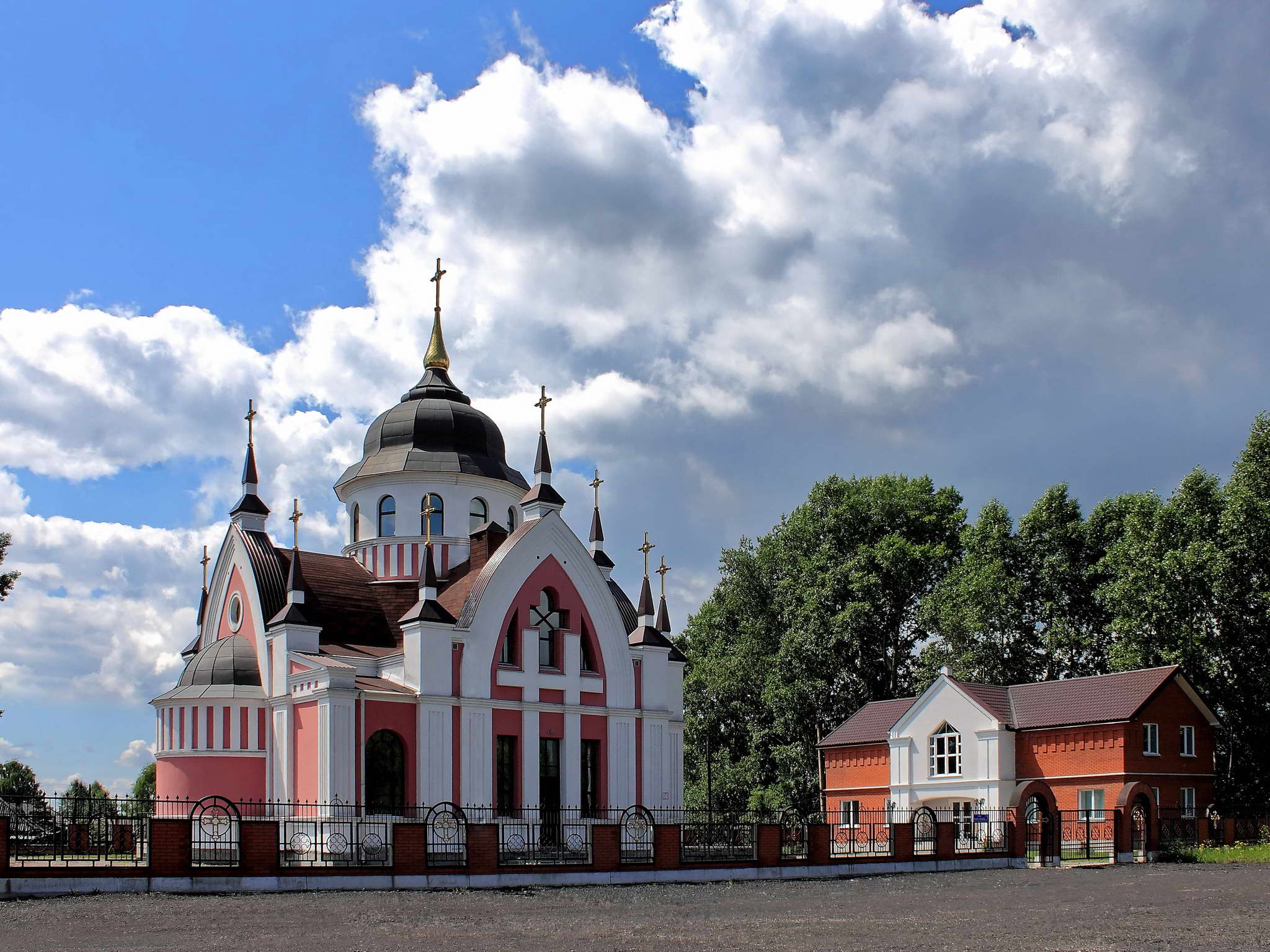 Saint John Chrysostom church in Novokuznetsk, Russia